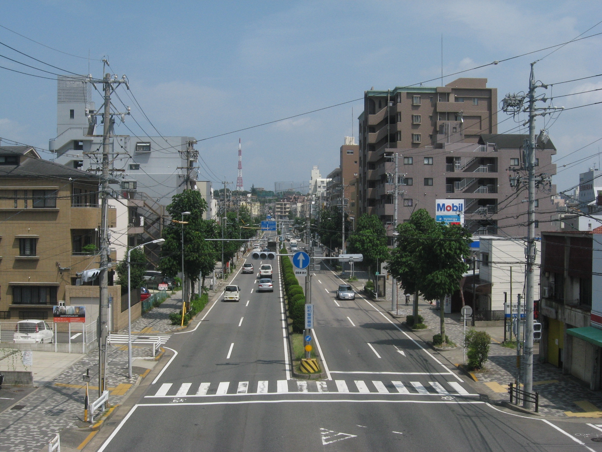 Near the ending point of Sanno-dori (Sanno Street)